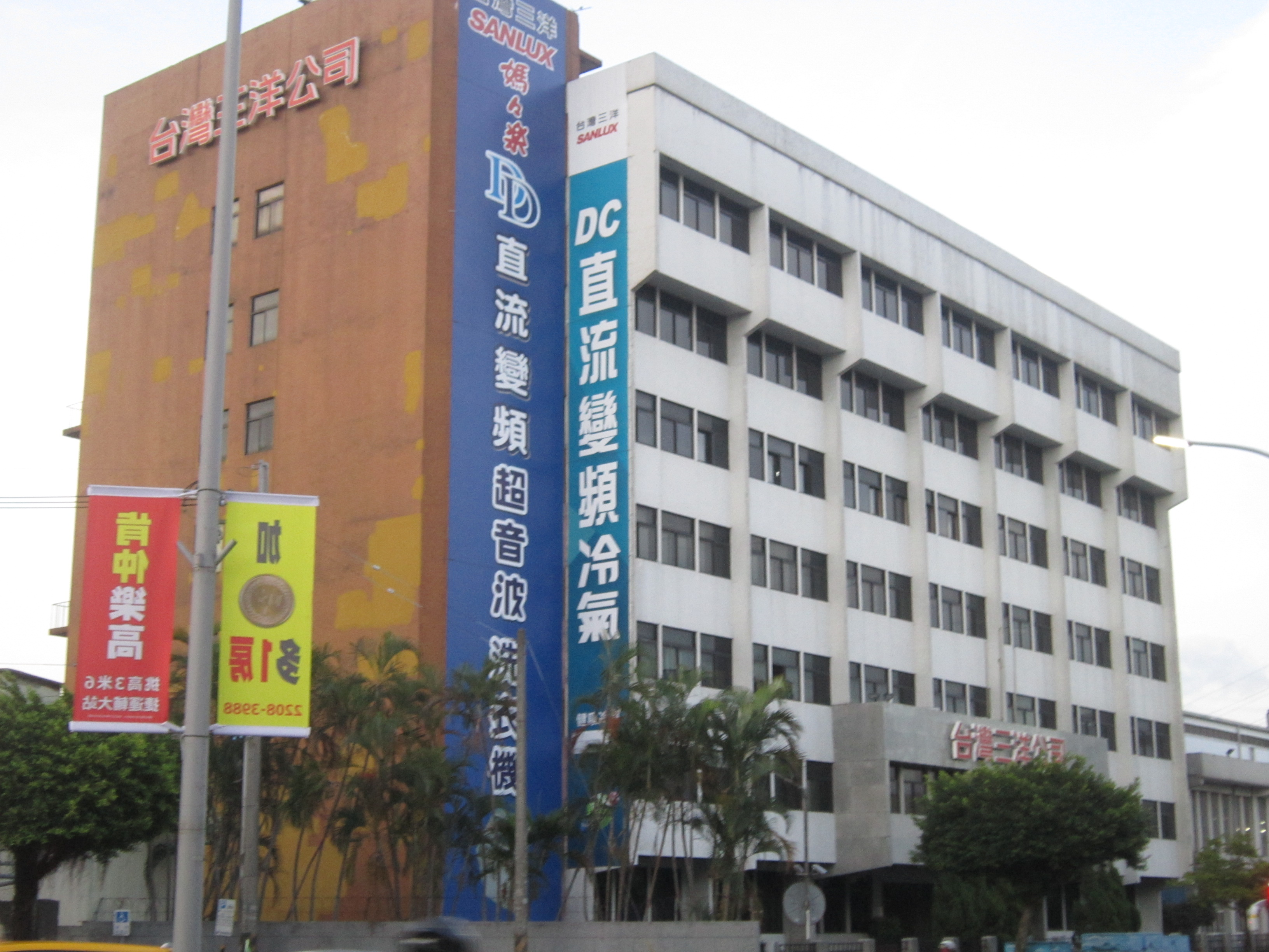 Tai Shan Factory, Sanyo Electric (Taiwan) Co., Ltd. 中文（台灣）: 台灣三洋電機泰山廠，位於新北市泰山區貴鳳街35號。大門位於泰山區中正路、中正路614巷口，拍攝時英文商標已改用SANLUX。